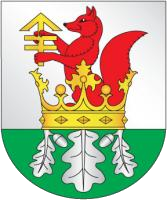 Coat of Arms of Biarezań